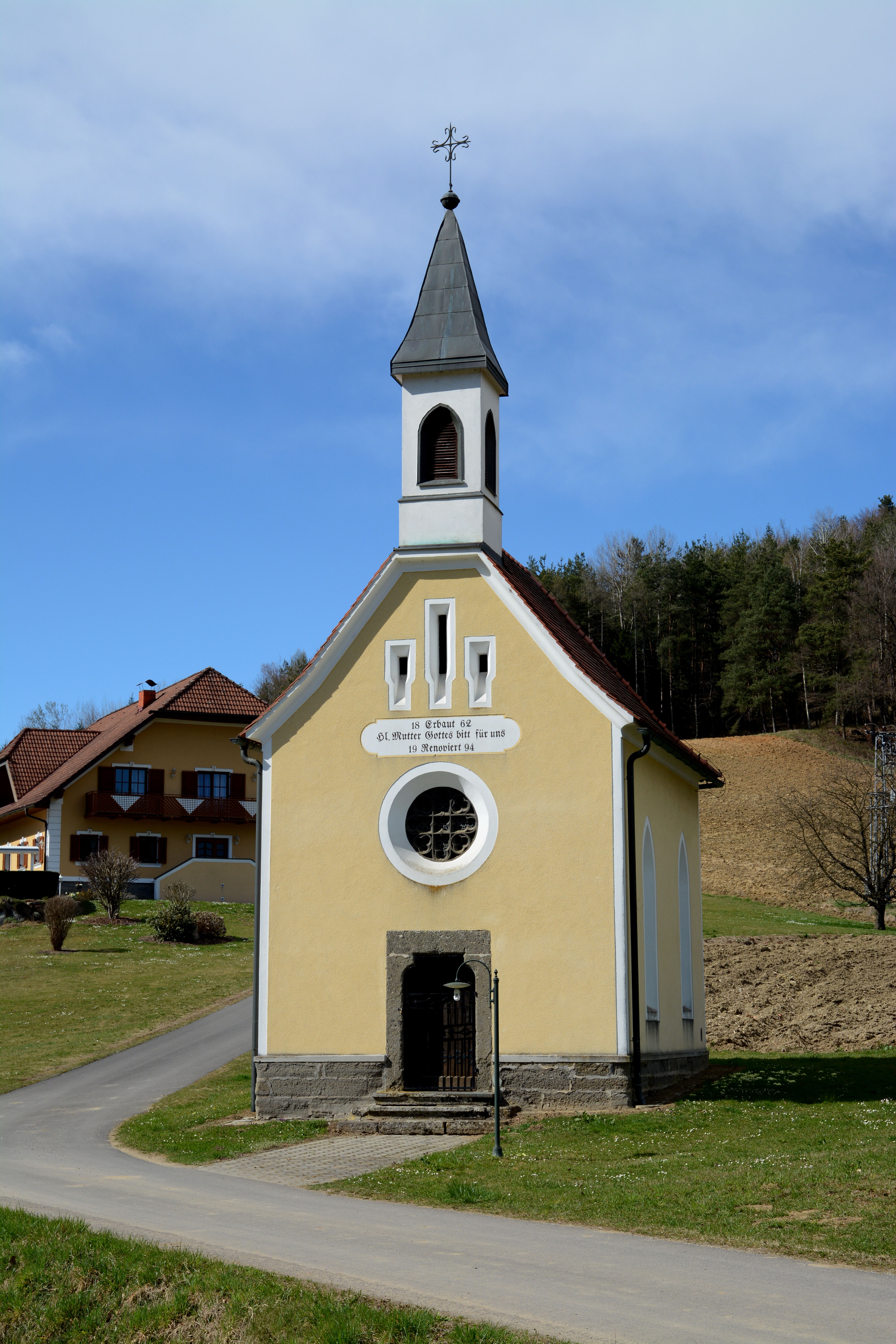 Chapel Altenmarkt bei Riegersburg